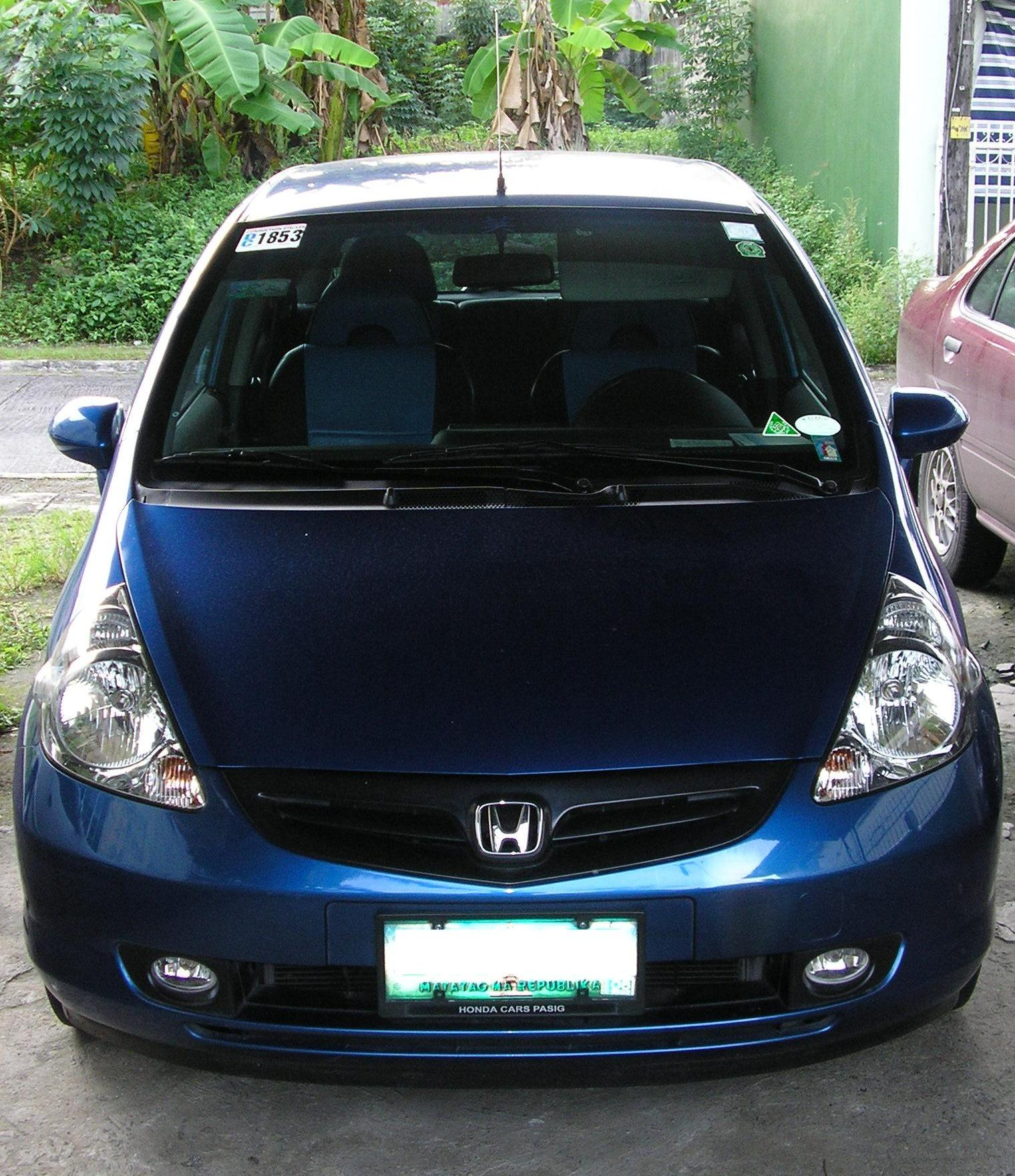 2005 model honda jazz philippines